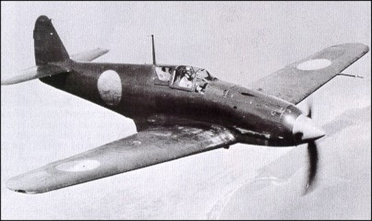 Image found on: avia.russian.ee/ air/japan/a_kawasaki.html Wartime photo of a captured Ki-61 under test Same photograph can be found on page on page 3 of Francillon, Réne J. The Kawasaki Ki-61 Hien, Aircraft in profile number 118. Leatherhead, Surrey, UK: Profile Publications, 1966. ASIN B0007KB5AW. Credit is given to US Army via Maru (a Japanese publisher). And in Bueschel, Richard M. Kawasaki Ki.61/Ki.100 Hien in Japanese Army Air Force Service, Aircam Aviation Series No.21. Canterbury, Kent, UK: Osprey Publications Ltd, 1971. ISBN 0-85045-026-8. Where credit is given to the US Navy via Hal Andrews via Richard Bueschel. In fact Mr. Bueschel gives several photographs of this plane, which carried the number 263 on its tail when tested at Wright Field, Ohio in 1945.Dirk P Broer 00:58, 11 August 2007 (UTC) There is a distinct possibility that this aircraft may be the same as the one now in a Japanese Museum. If so, another photograph of this plane (in the painting scheme it once had in an American Museum) was recently deleted from Wikimedia as it infringed upon copyrights...You can see it at page 12 of the Aircraft in Profile no.118.Dirk P Broer 00:58, 11 August 2007 (UTC)